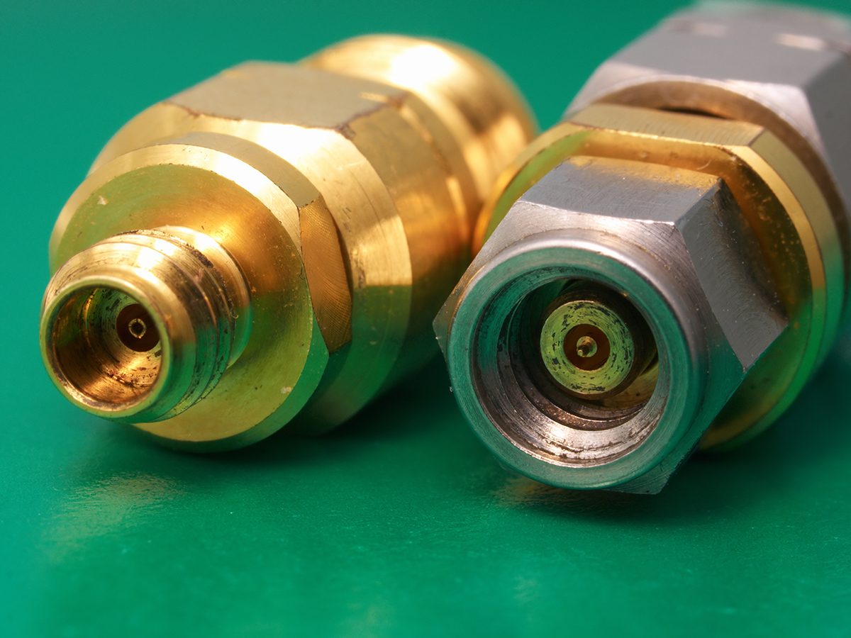 Male and female 1 mm connectors